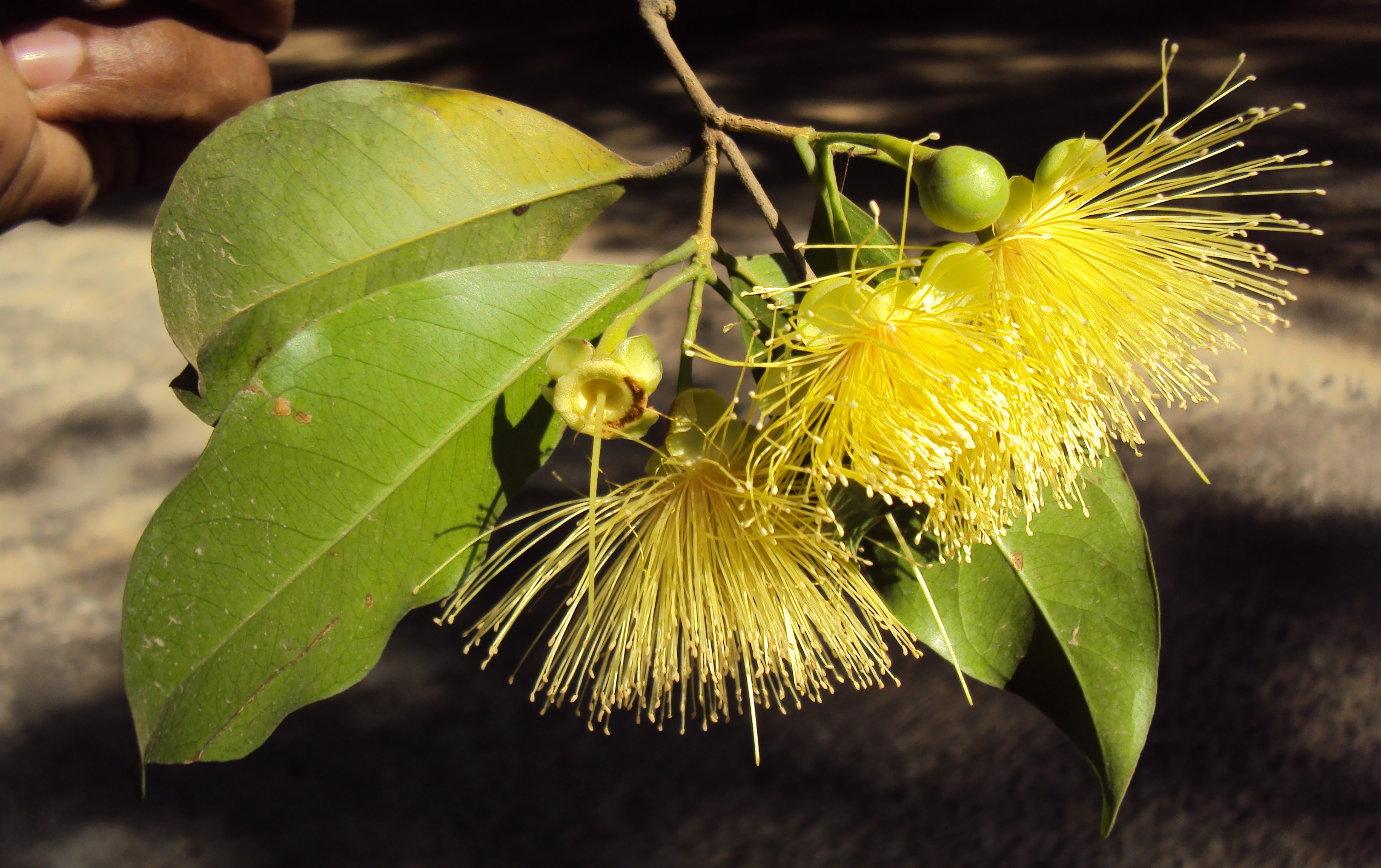 Syzygium laetum